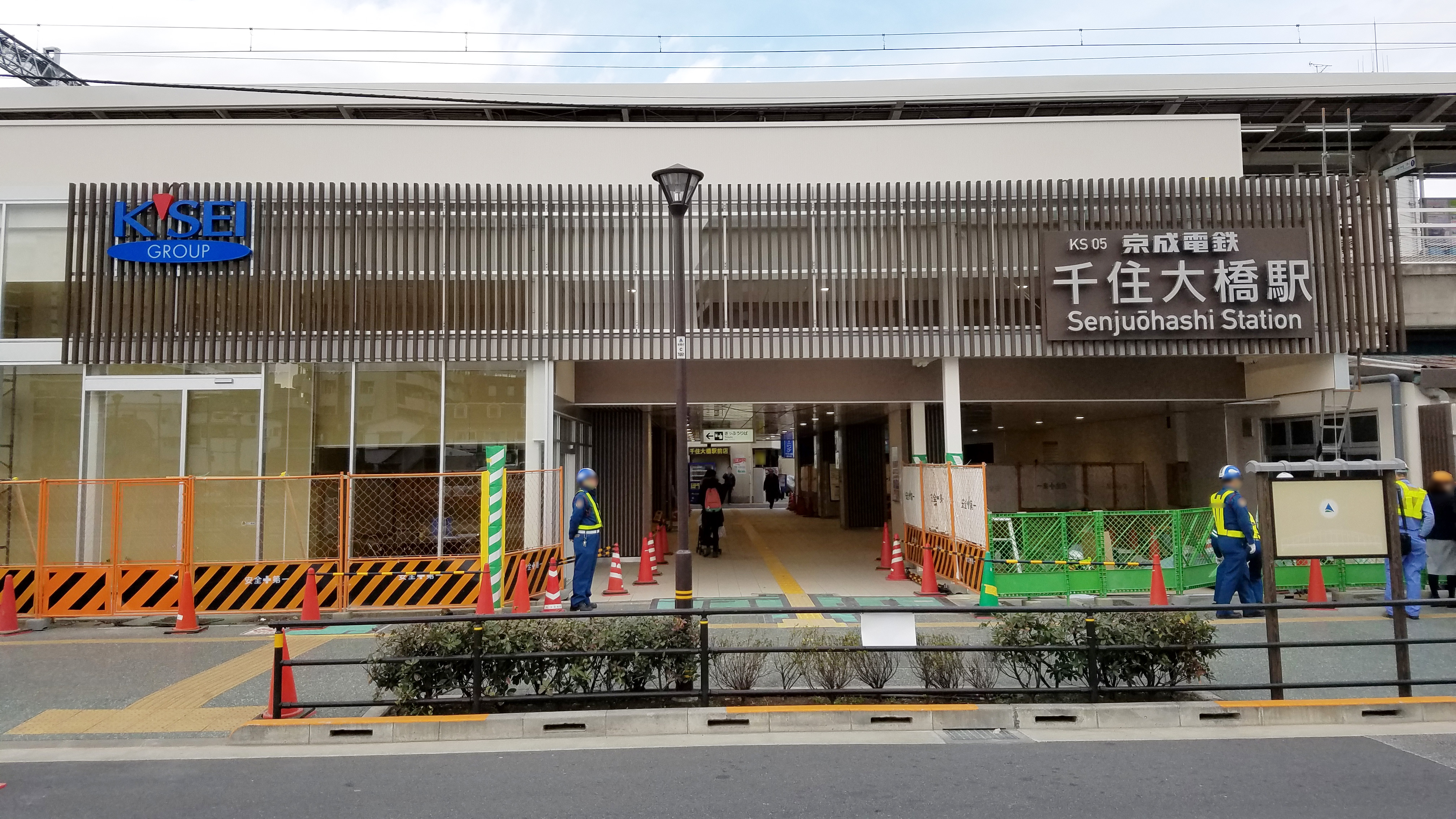 The south-side entrance of Senjuōhashi Station on the Keisei Main Line in Tokyo